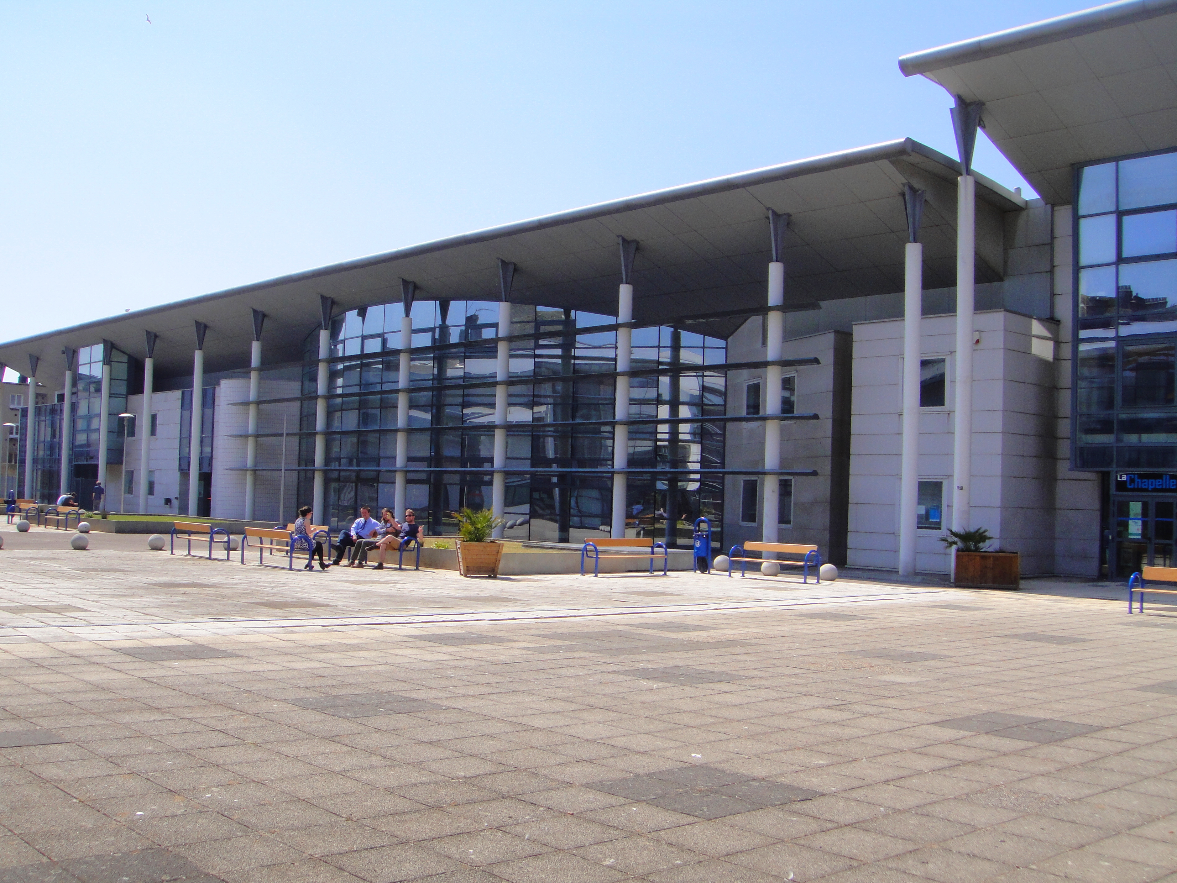 Campus Saint-Louis in University of Boulogne-sur-Mer (France)